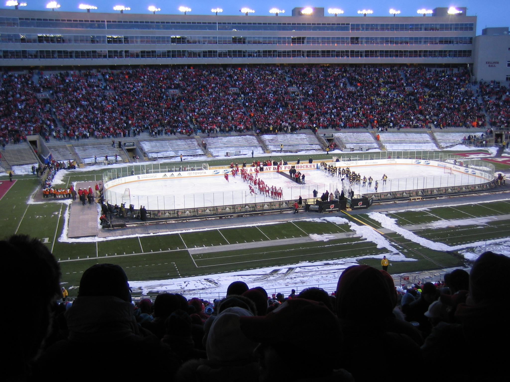 camp randall hockey classic 031